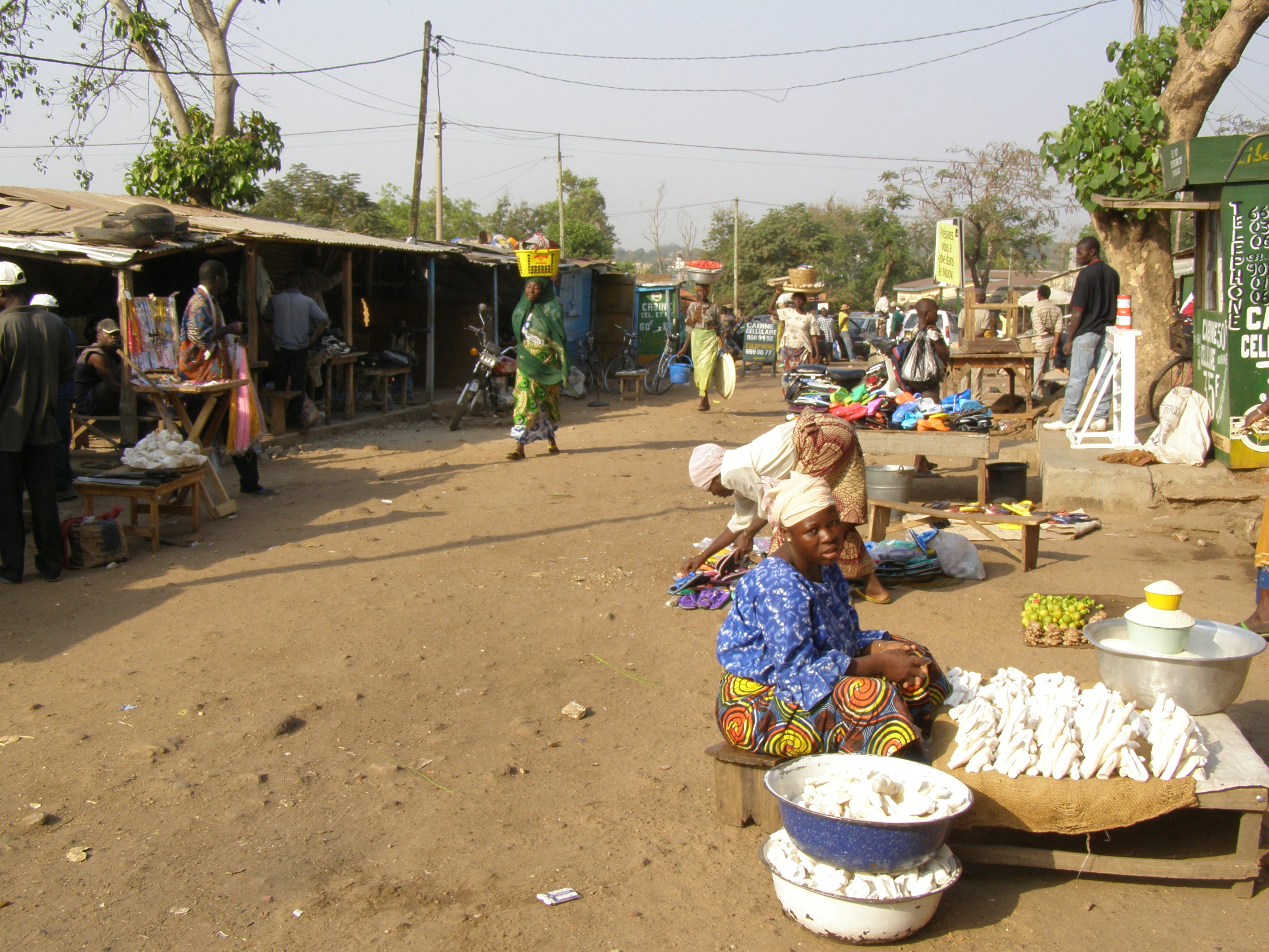 City of Kara, Togo